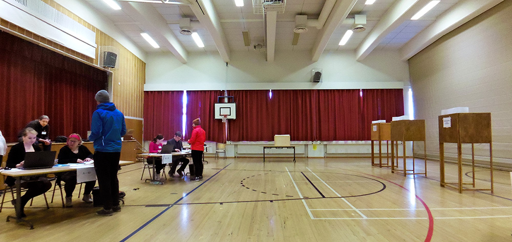 Polling station for Parliament elections of Finland in 2019. Voionmaa School, Jyväskylä.